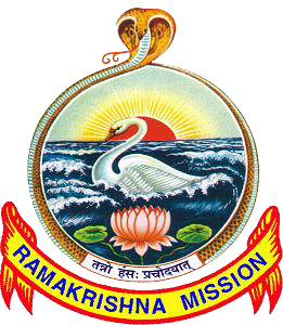 Transparent Emblem of Ramakrishna Mission. RKM Emblem description. Designed by Swami Vivekananda (1863 – 1902).